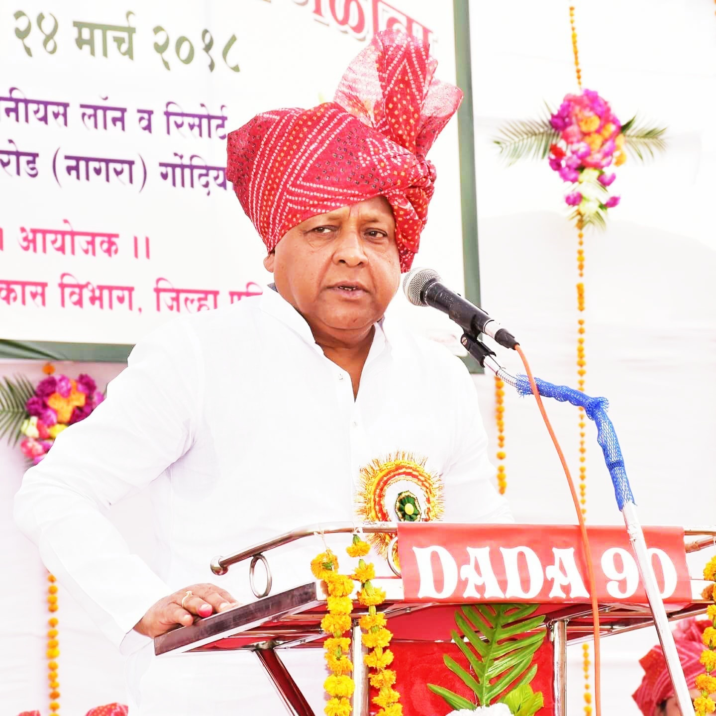 Politician (MLA)